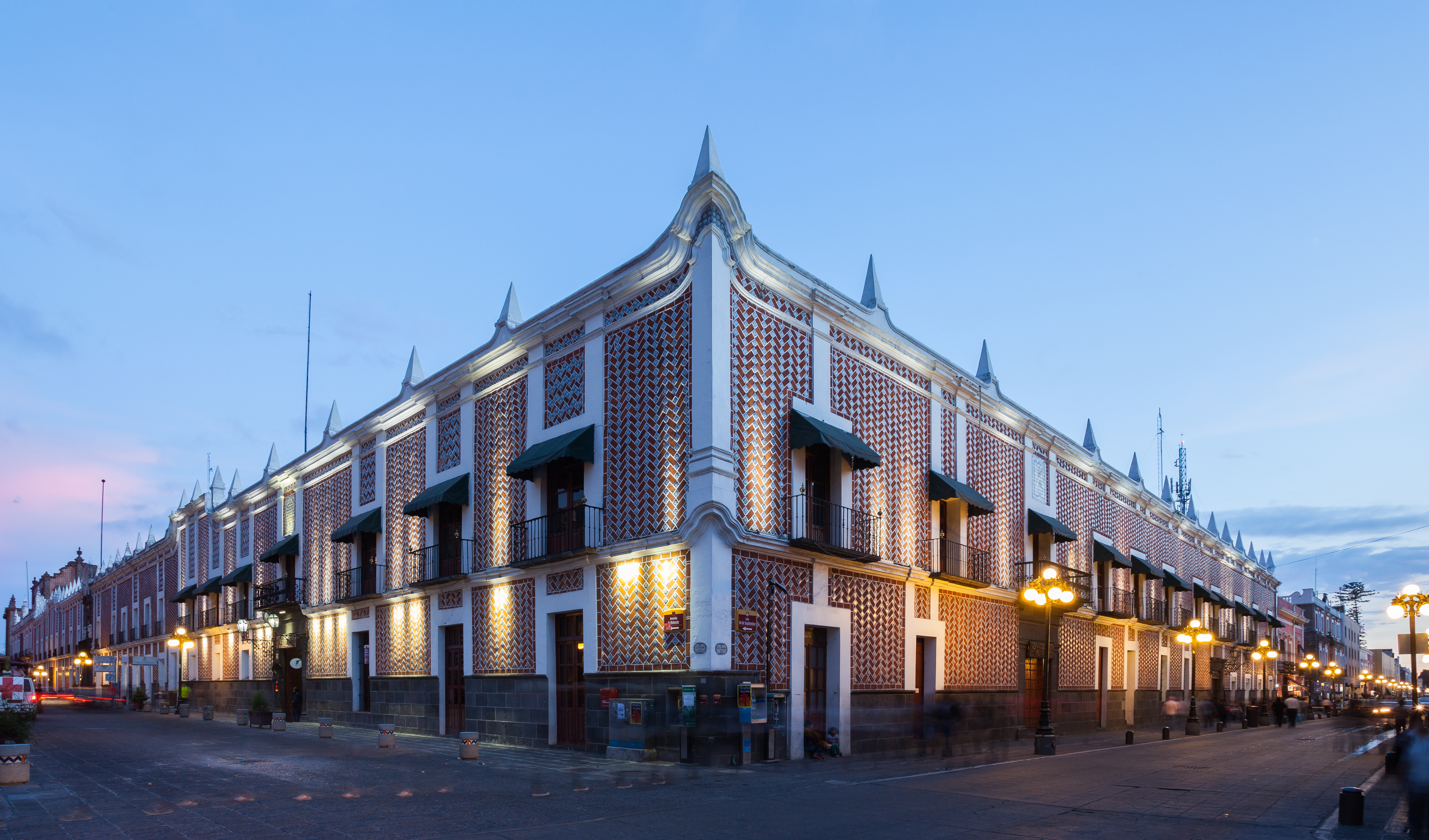 Postal service office, Puebla, Mexico